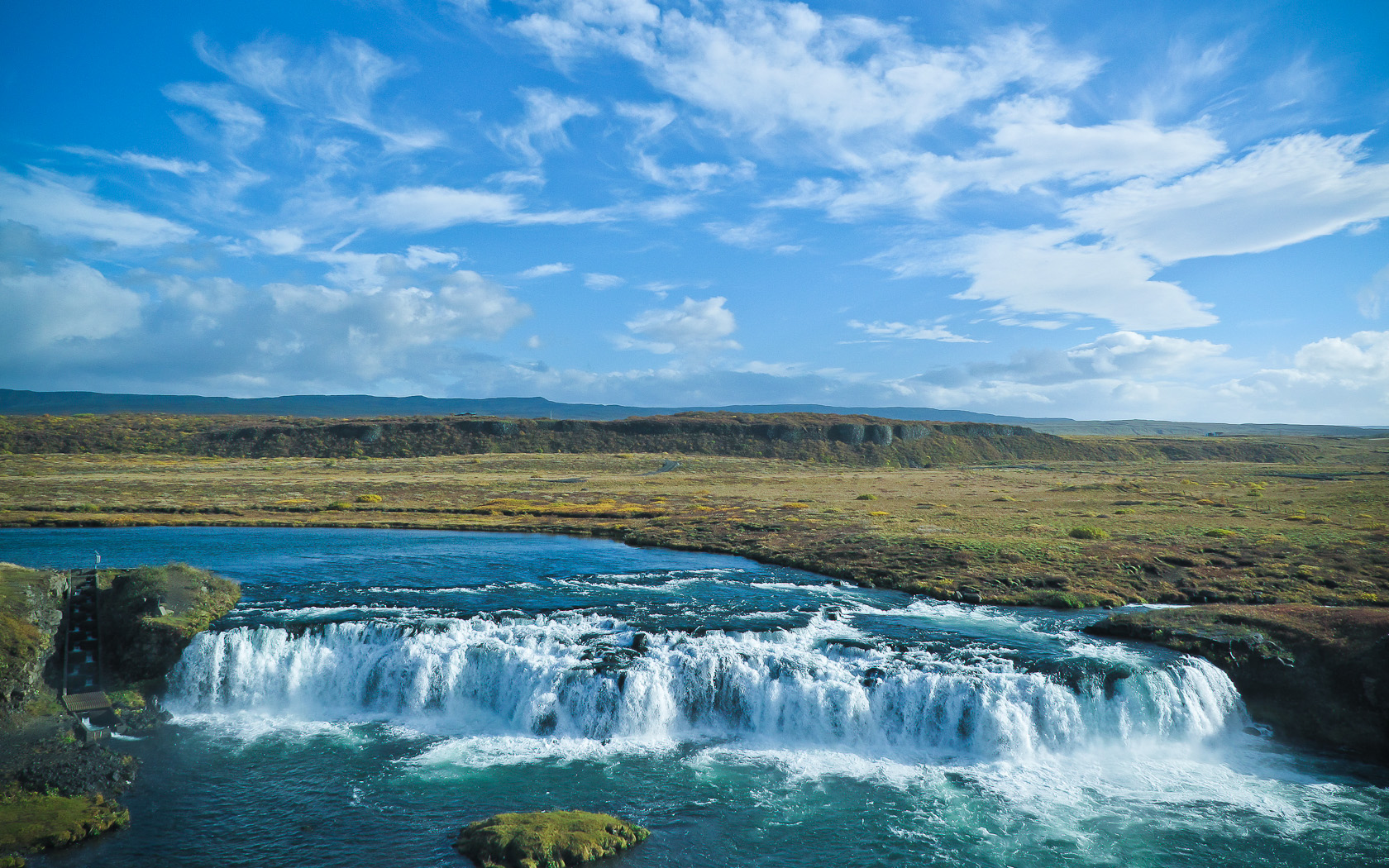 Panorama photo of the Faxi waterfall in Iceland